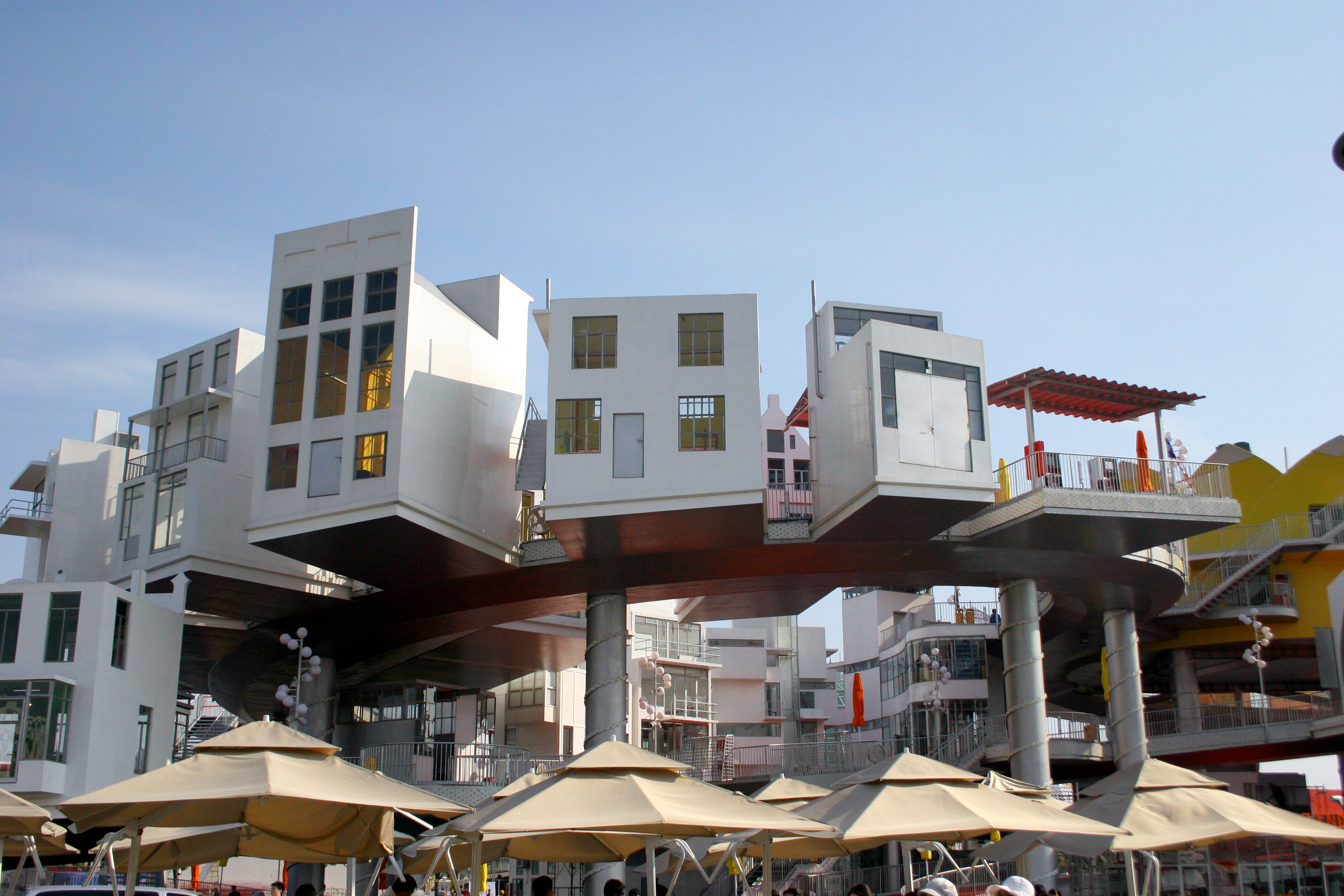 Netherlands Pavilion of Expo 2010